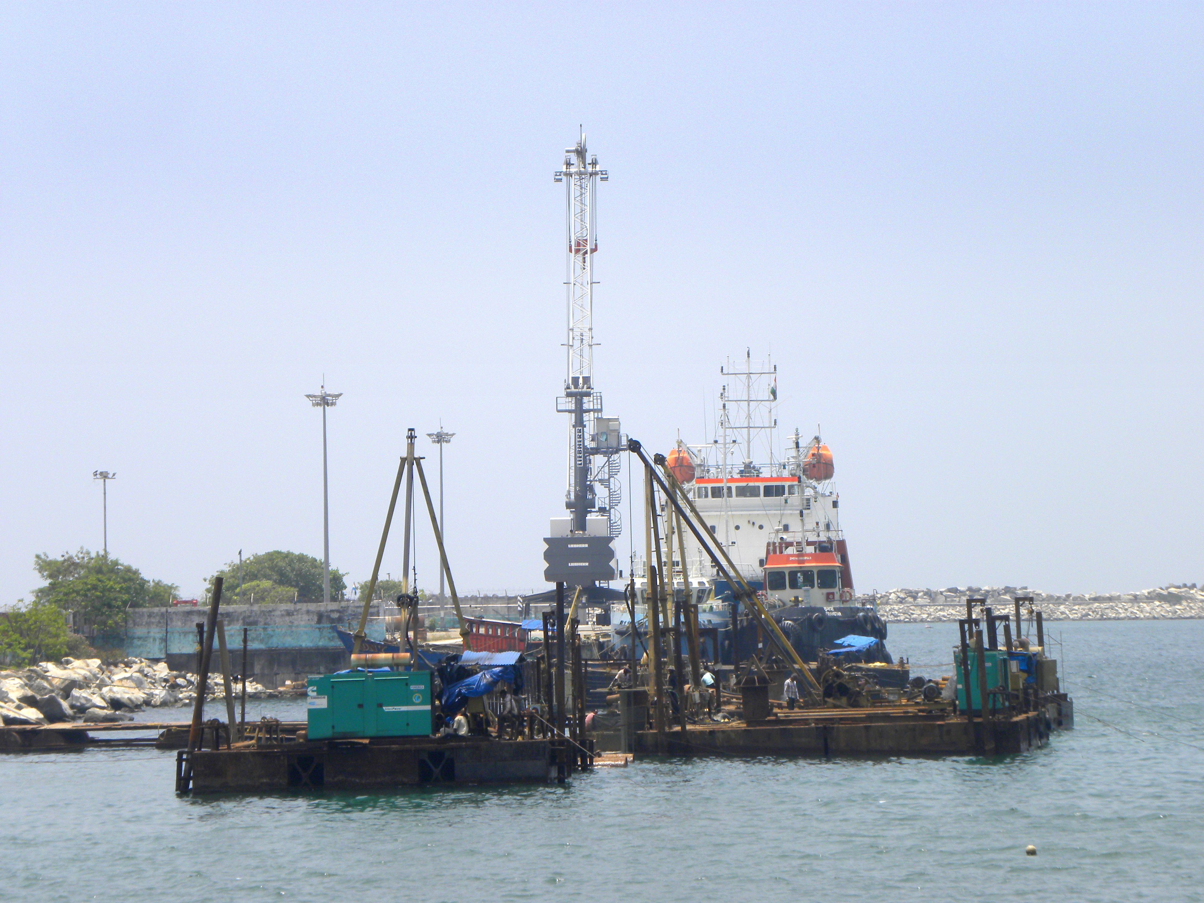 Kollam Port is one of the ancient ports in India, established in AD.825